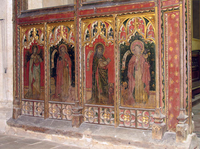 St Mary, East Ruston, Norfolk - Screen